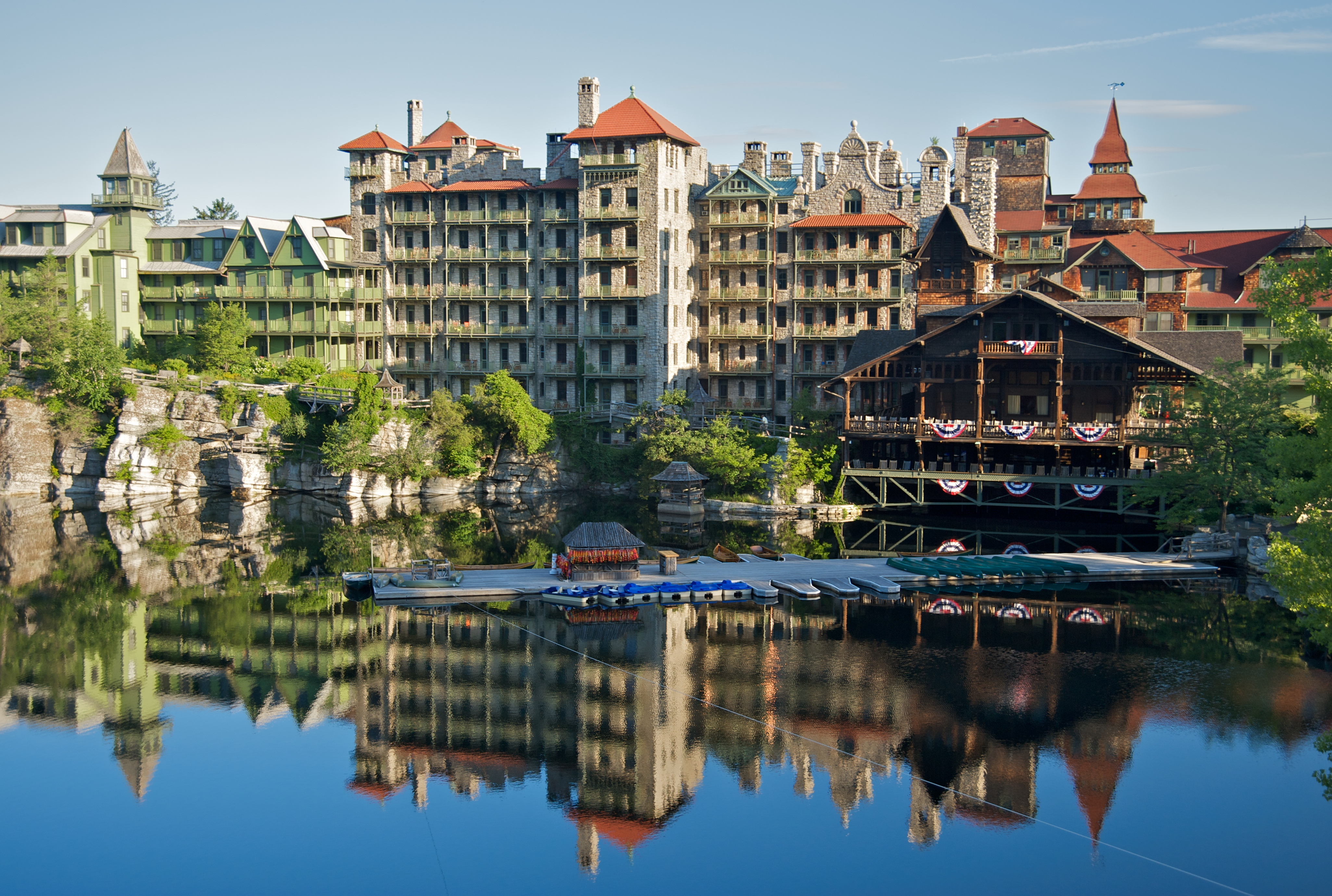 Main buildings surrounding the Mohonk Lake at Mohonk Mountain House